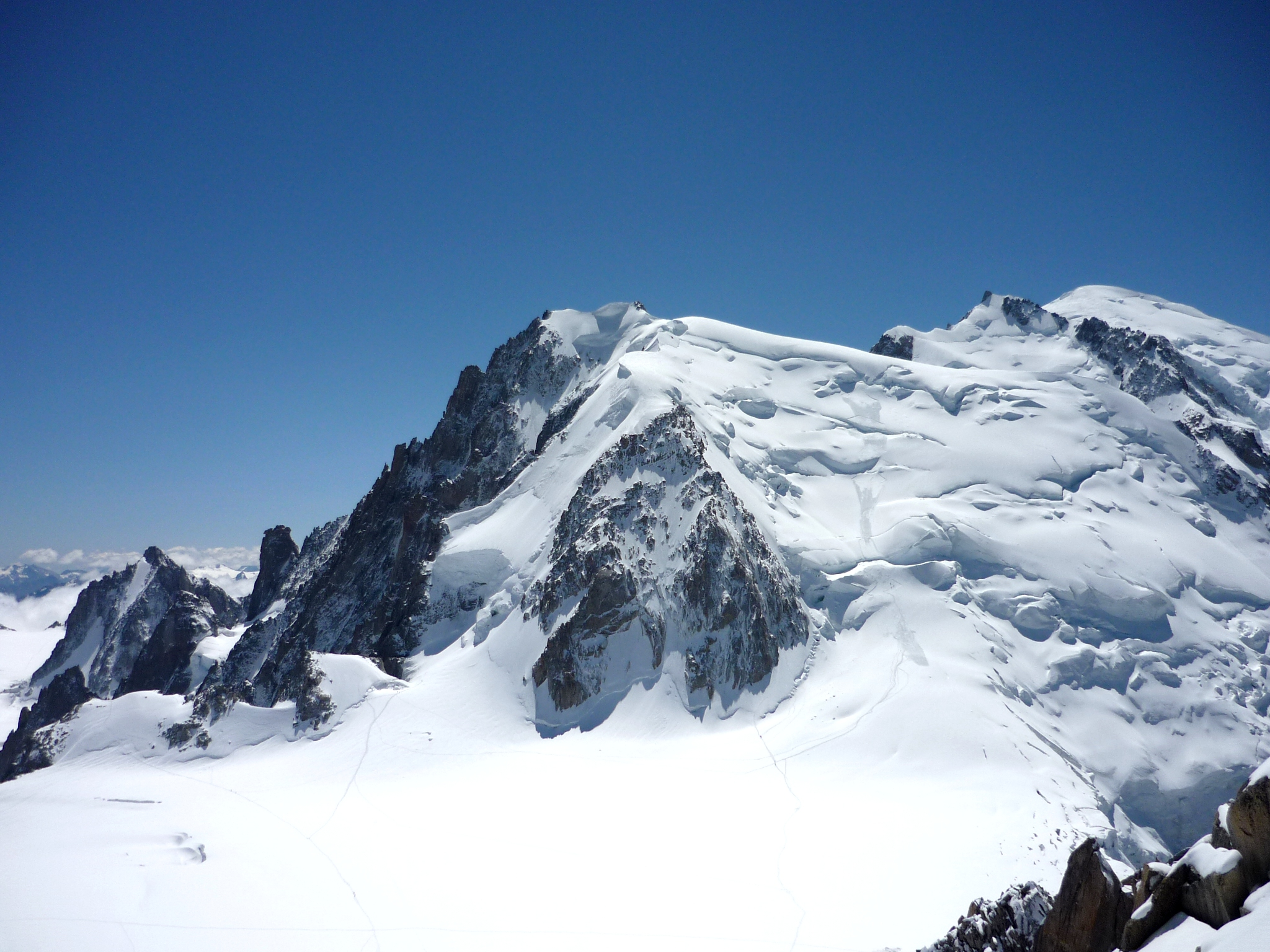 Mont Blanc, Mont Maudit, Mont Blanc du Tacul, Tour Ronde, pointe Adolphe Rey, Grand and Petit Capucin, vallée Blanche and Midi pass seen from aiguille du Midi, Chamonix-Mont-Blanc, Haute-Savoie, France